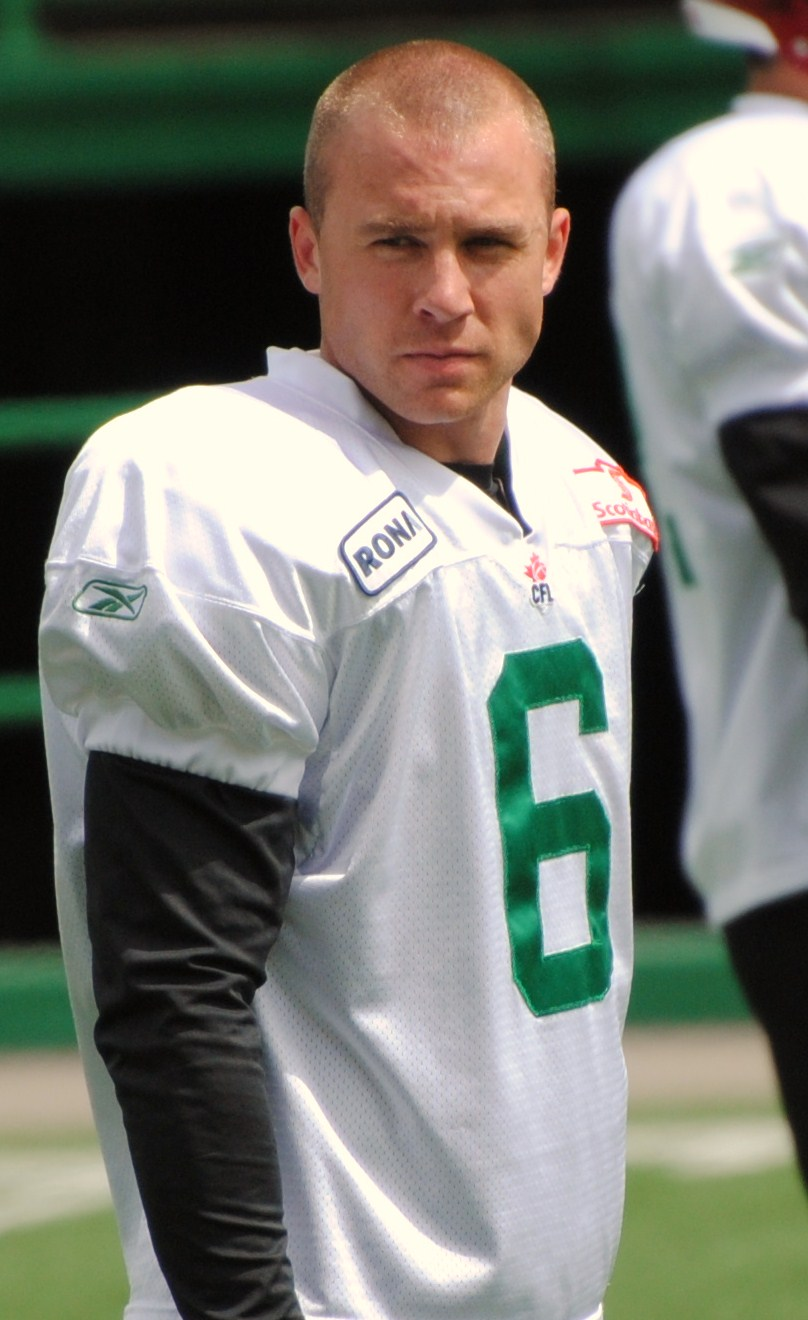 Receiver Rob Bagg during a Saskatchewan Roughriders practice.